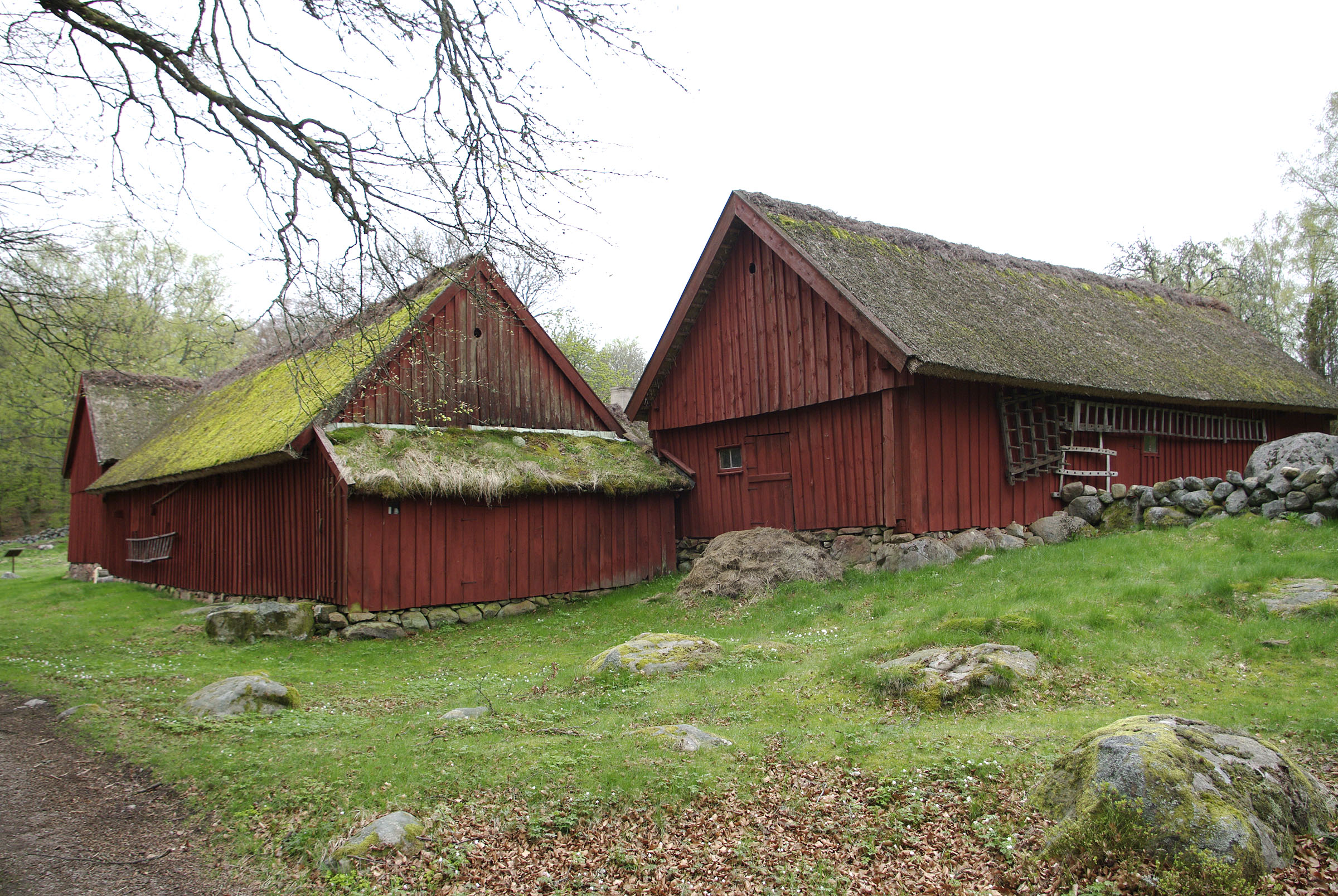 Old farm building in the province of Halland in western Sweden.